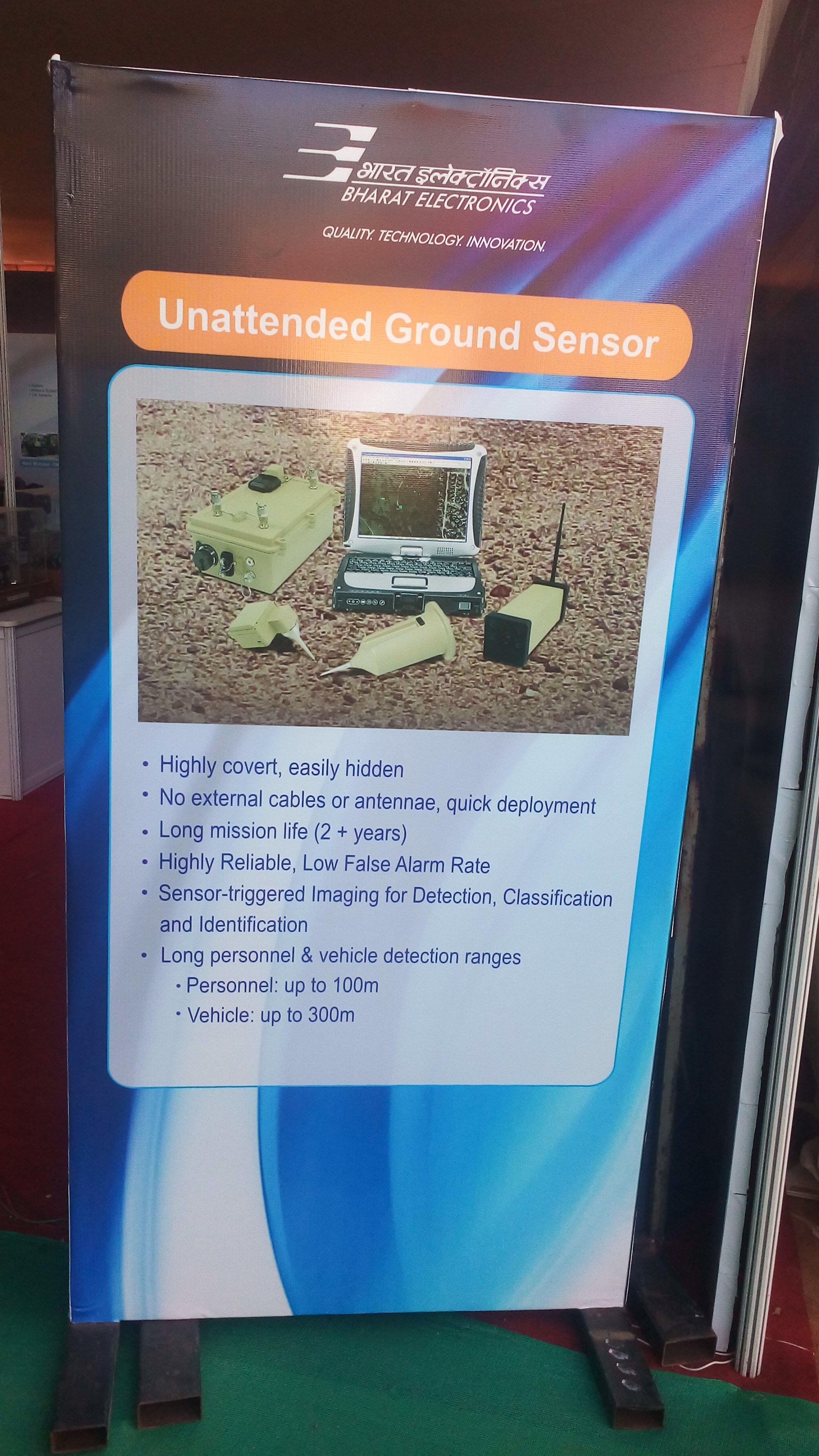 Adamya Chaitanya Exhibition 2016